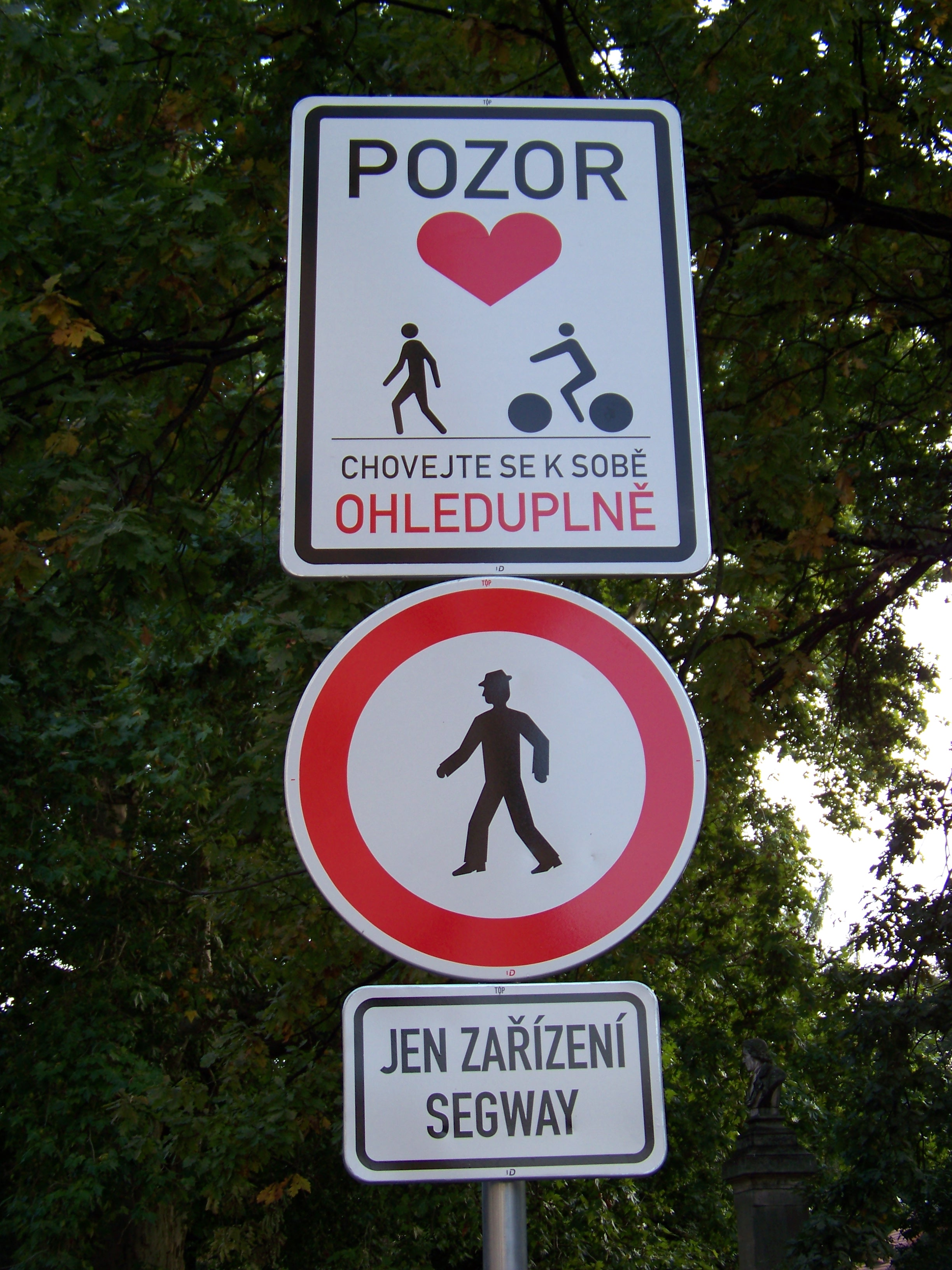 Prague-Malá Strana, Czech Republic. Kampa Park, U Sovových mlýnů street. Road signs.